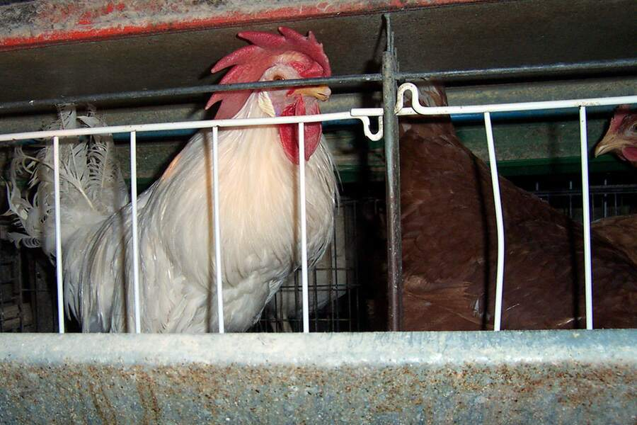 overlooked cock in a battery farm with cropped beak